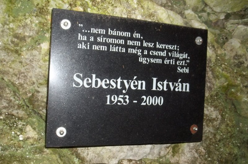 Plaque of István Sebestyén at the entrance of Láner Olivér Cave